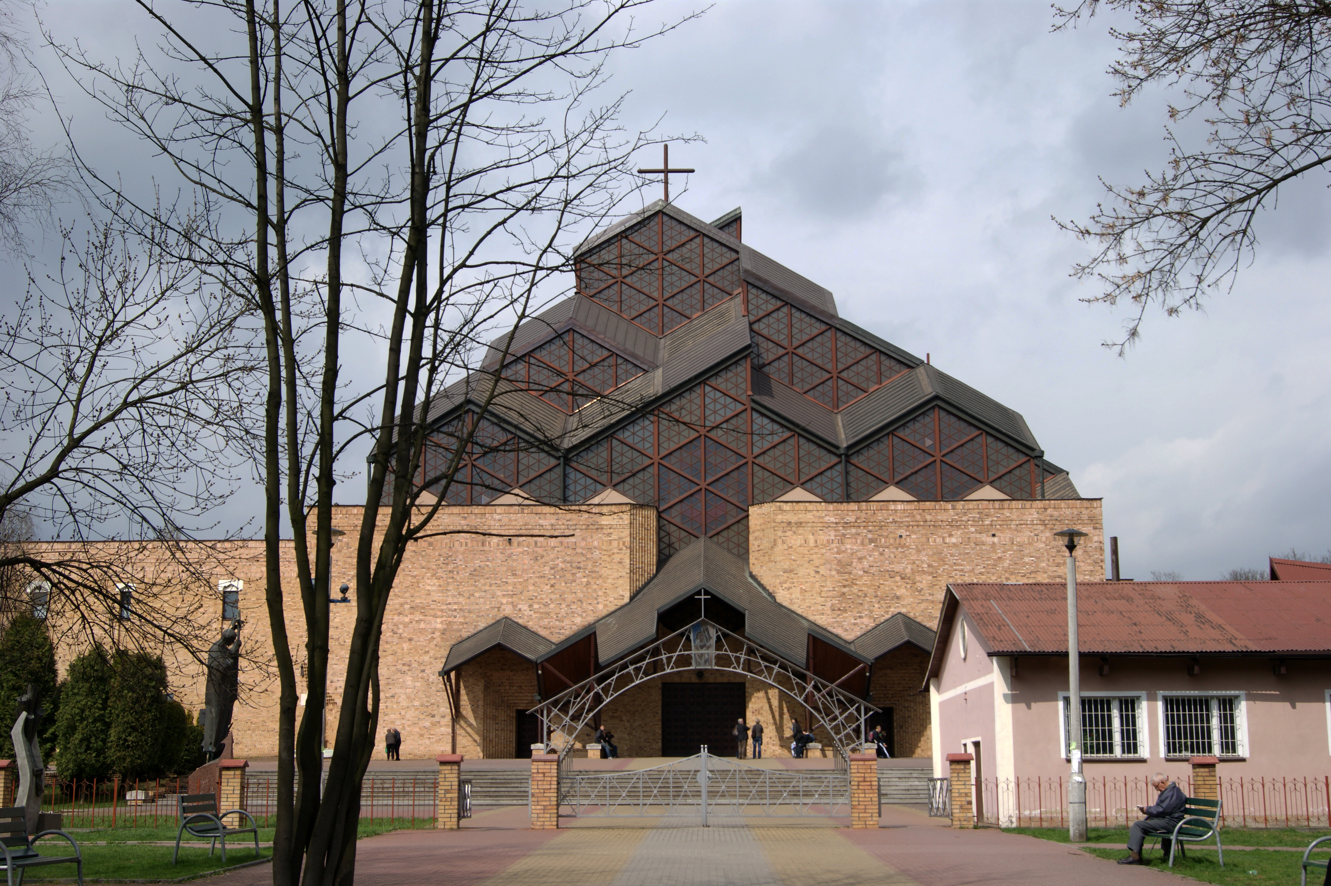 Church of Our Lady of Czestochowa, 7 os. Szklane Domy,Nowa Huta,Krakow,Poland